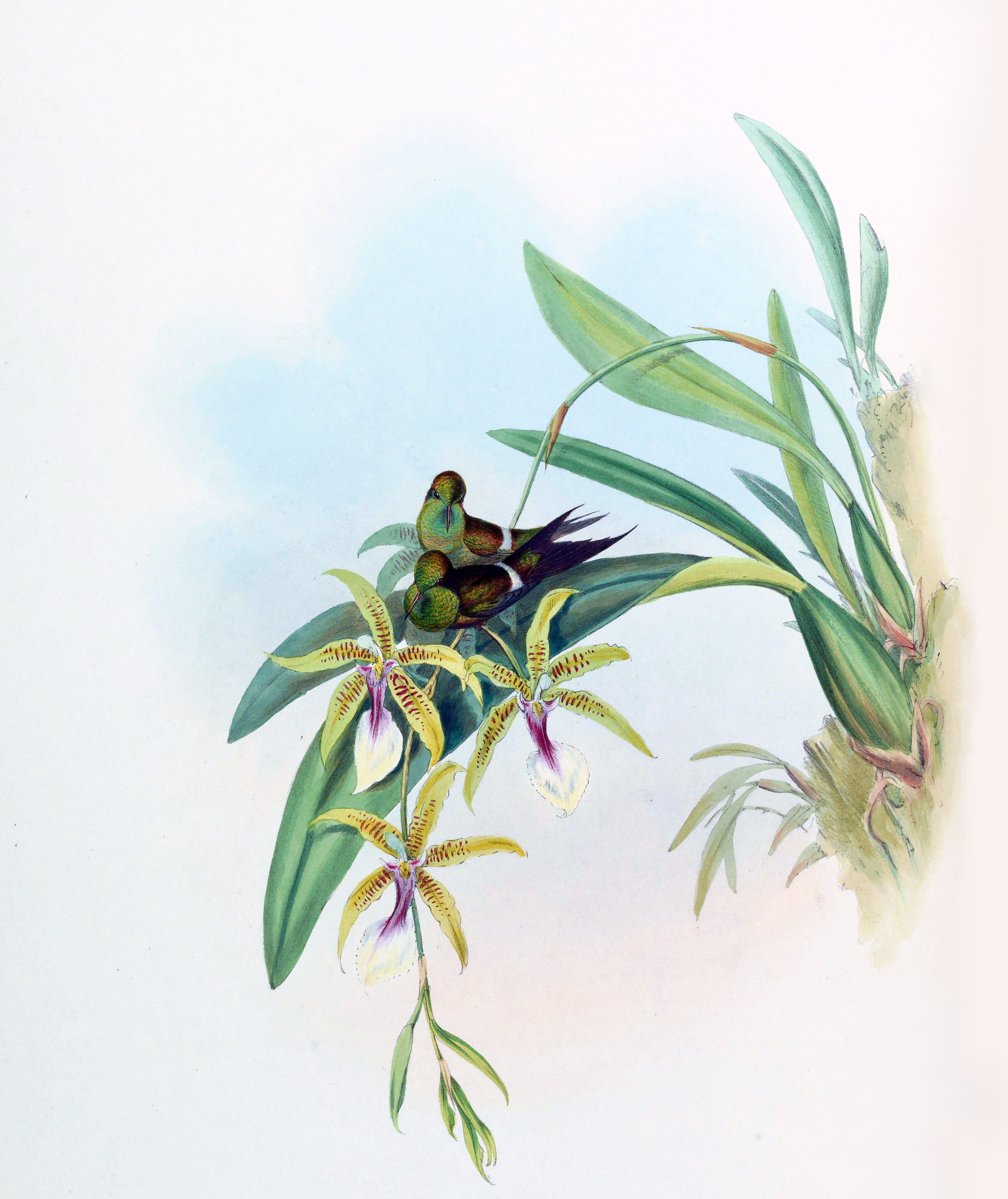 Gouldia laetitiae = Discosura letitiae [1] with Oncidium hastilabium.